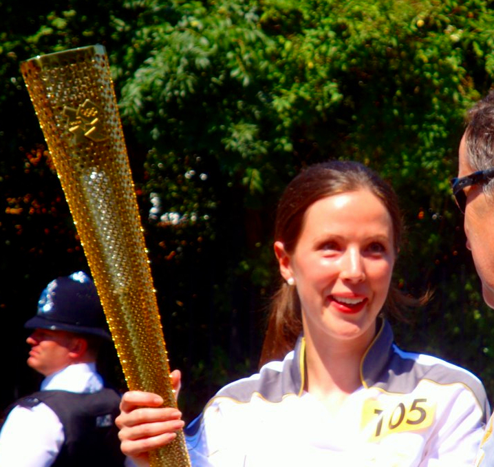 Lucy Caslon, Director of Msizi Africa, an AIDS orphan charity in Lesotho - for more about why she was nominated to carry the flame.